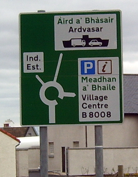 A road sign in Gaelic and English at Mallaig, western Scotland. Photo by Picapica May 2005.